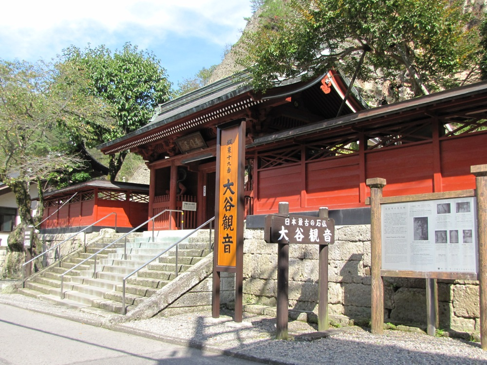 Niōmon gate of Ōya-ji temple in Utsunomiya, Tochigi Prefecture